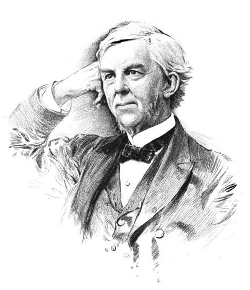 Engraving of the poet/professor Dr. Oliver Wendell Holmes, Sr.